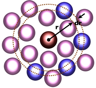 A schematic of how the radial distribution function is calculated.